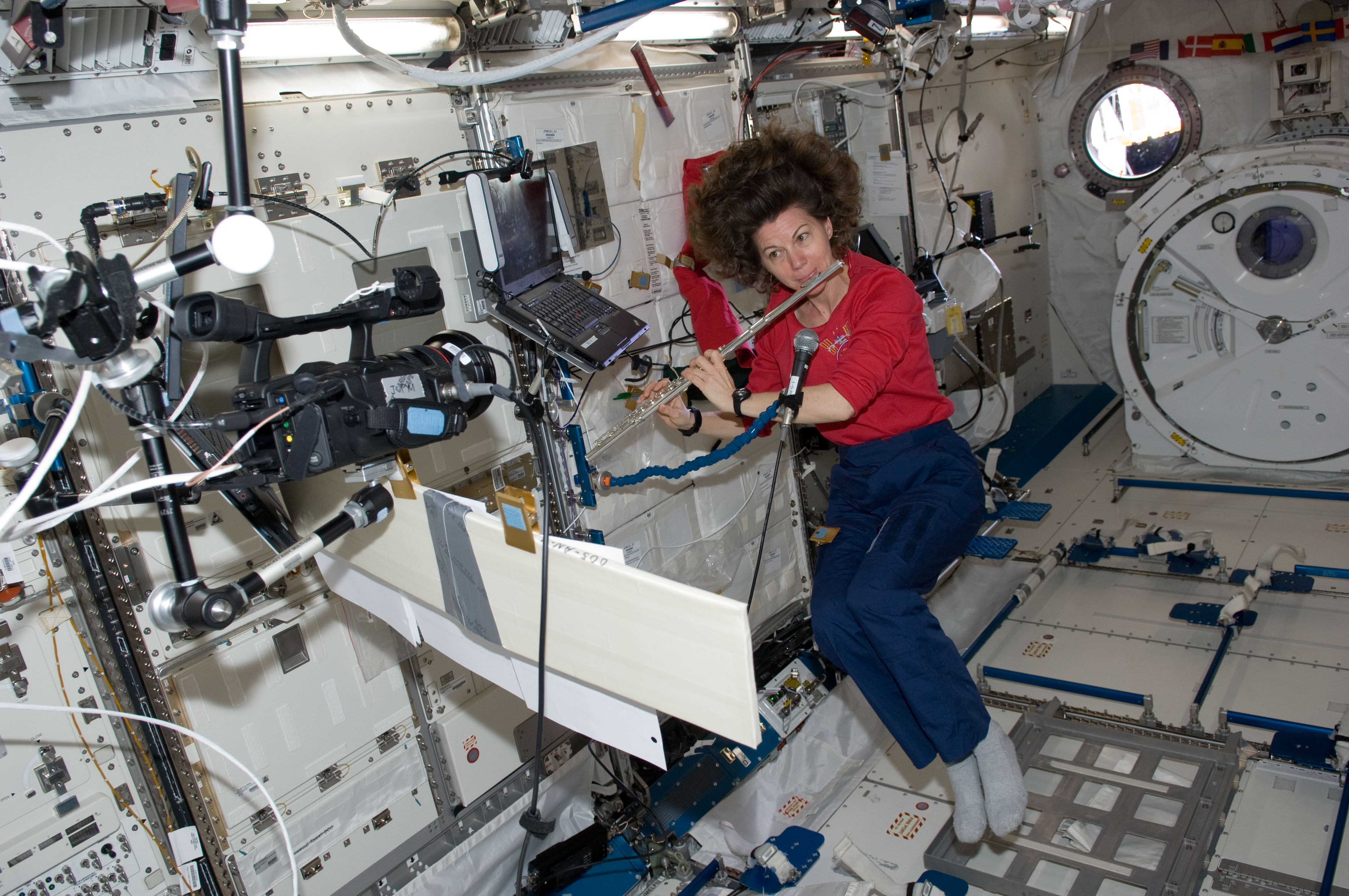 During some free time, NASA astronaut Cady Coleman, Expedition 27 flight engineer, plays a flute in the JAXA Kibo laboratory onboard the International Space Station.